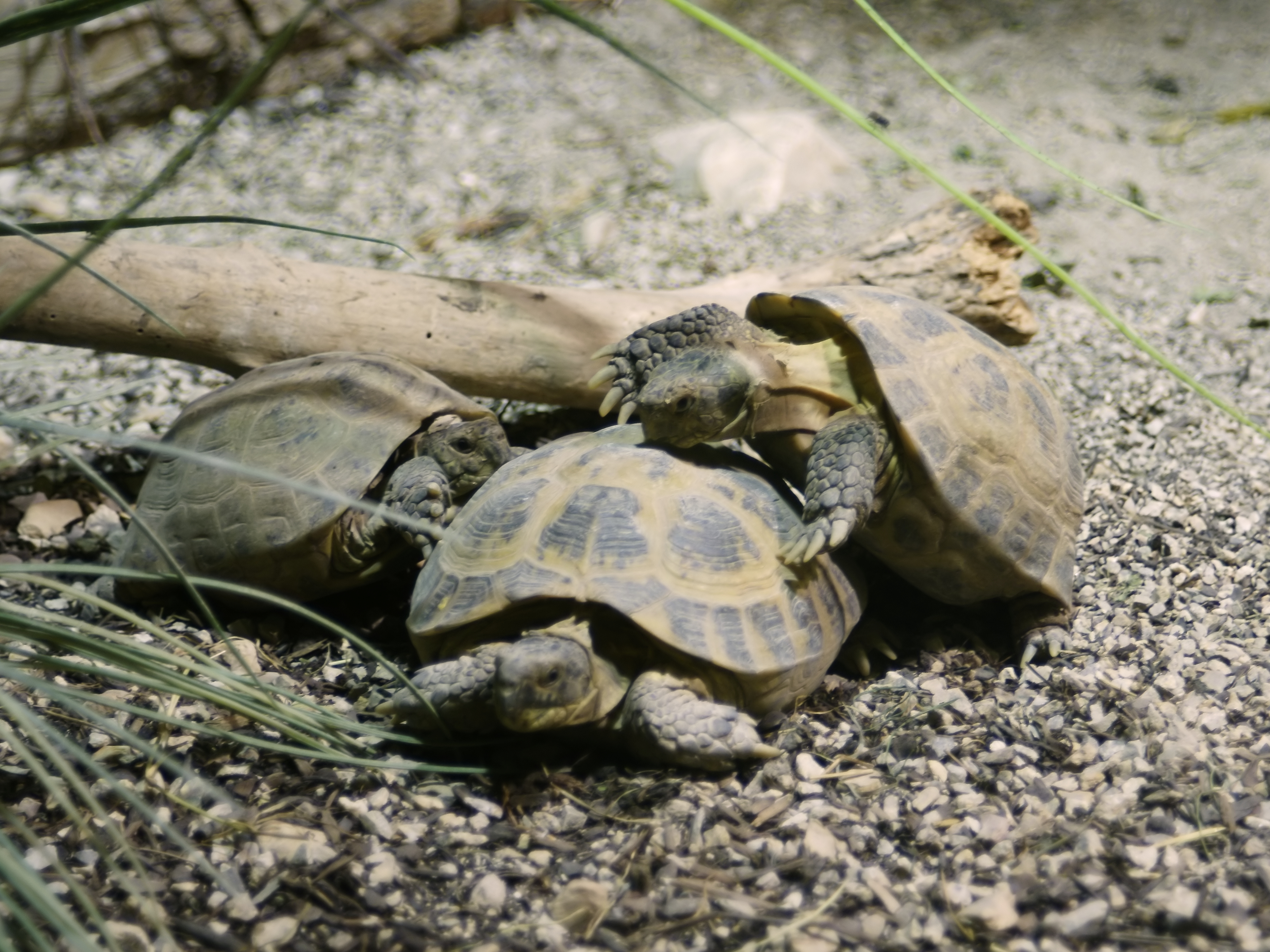 Horsfield's Tortoise